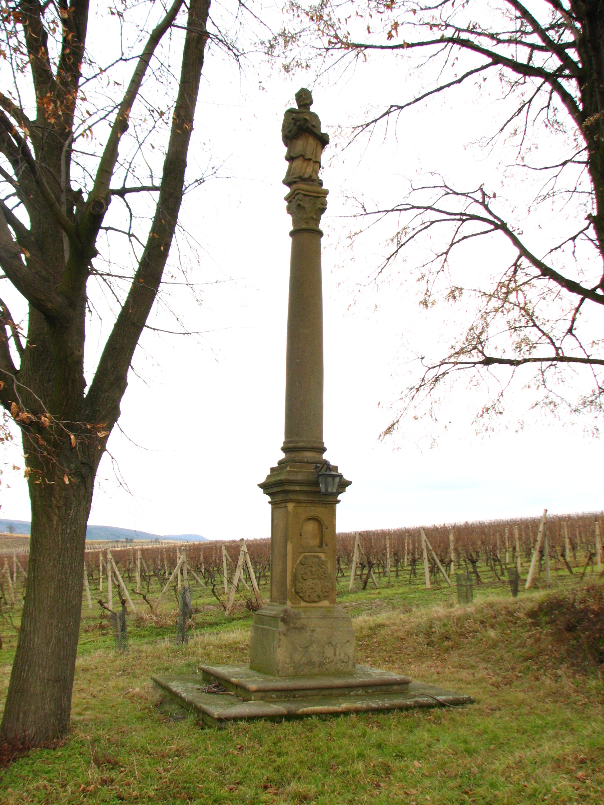 St. John Nepomucene Column in Hýsly (sandstone, 1706)